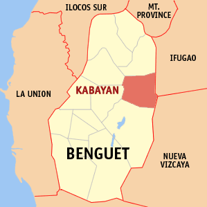 Map of Benguet showing the location of Kabayan